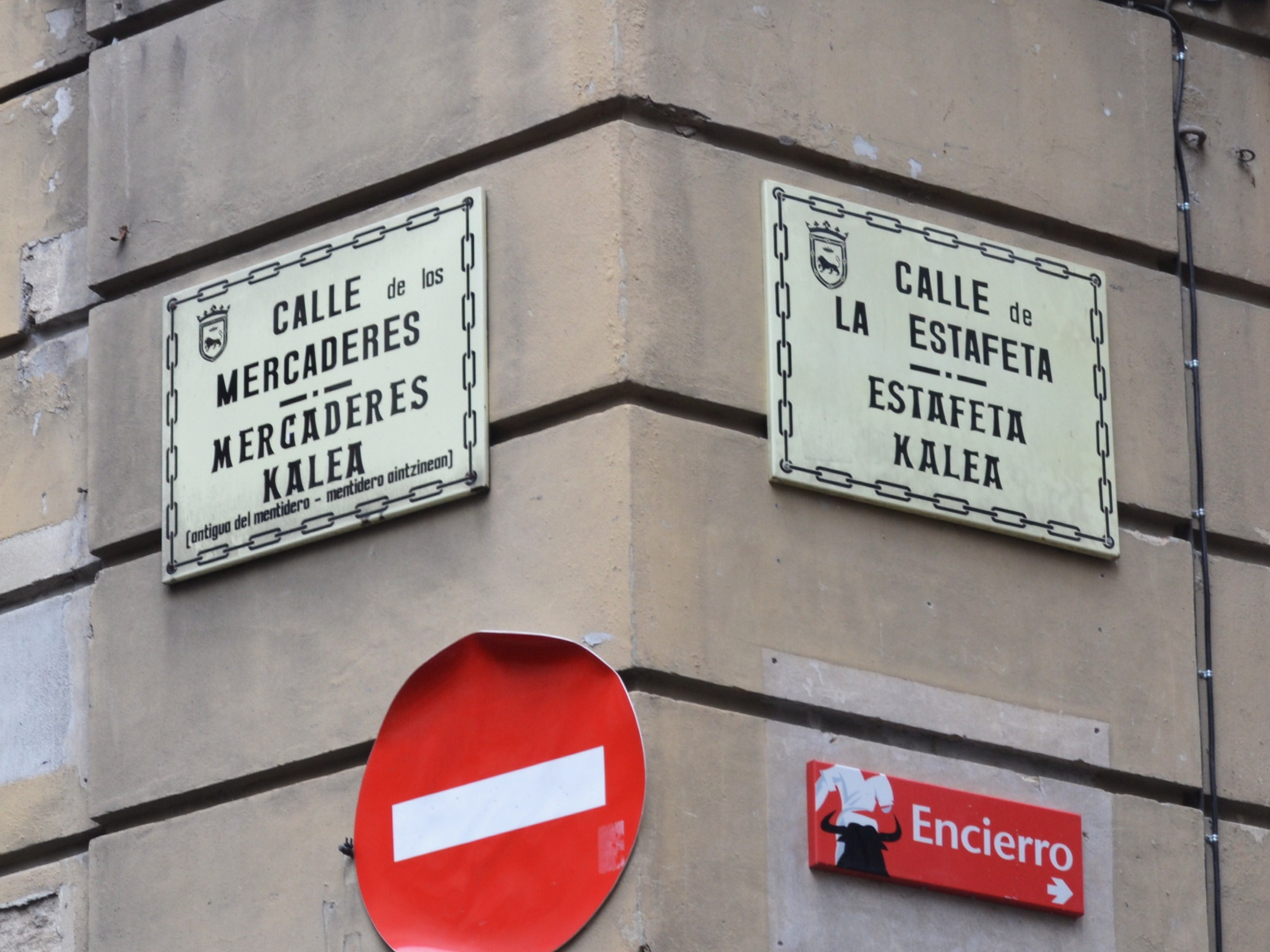 Mercaderes Street - Estafeta Street in Pamplona (Spain).